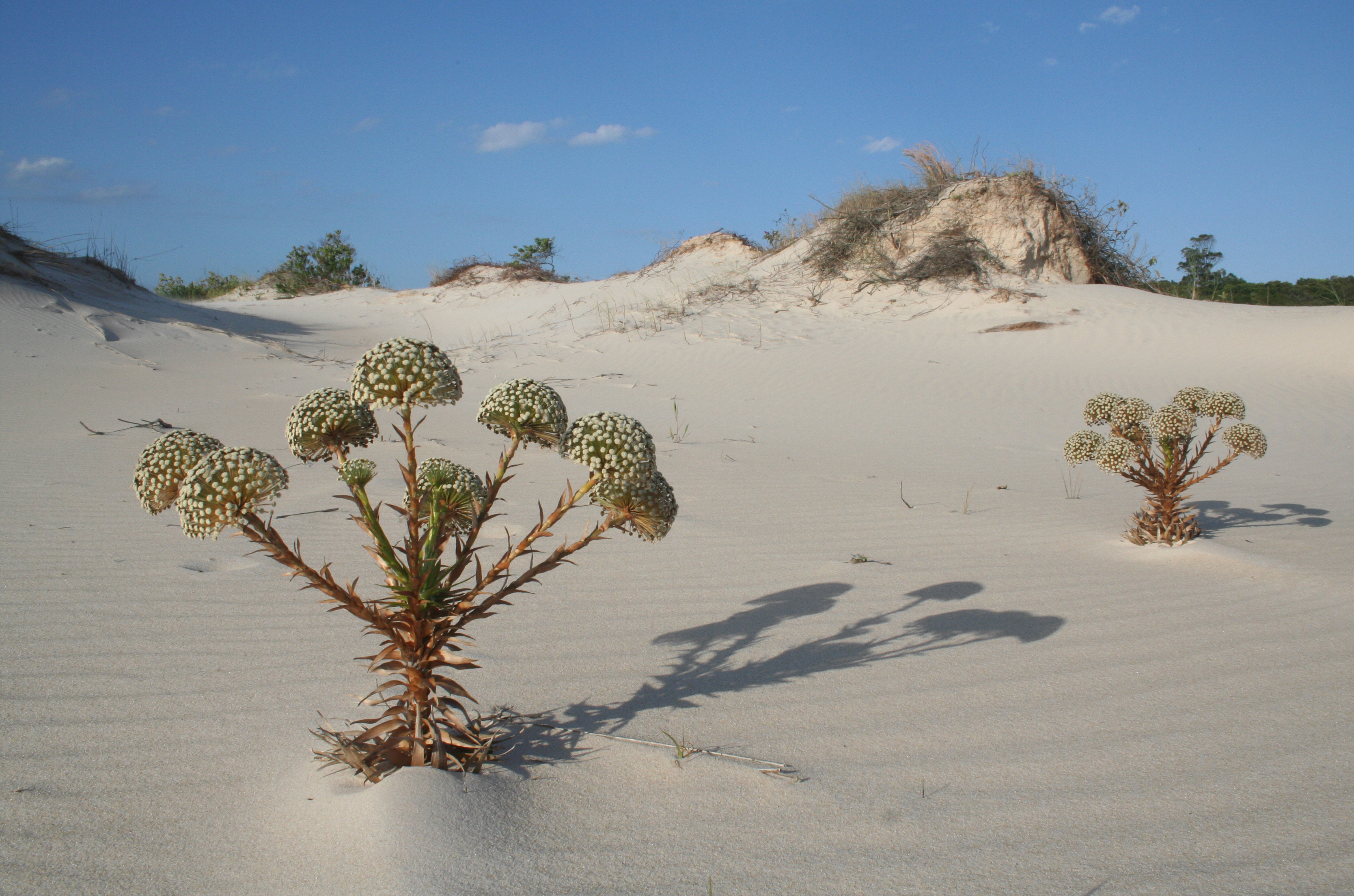 Actinocephalus polyanthus in sand dunes of Parque Natural Municipal das Dunas da Joaquina, in Florianópolis, southern Brazil.